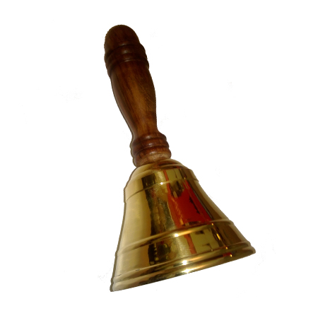 It's a hand bell. The bell is made of massive brass and the handle is of wood.